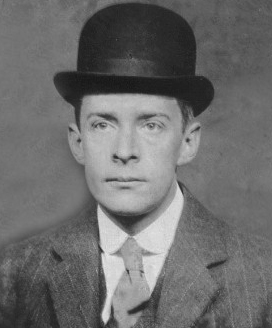 Photo of Robert Williams Daniel